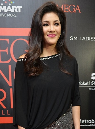 Regine Velasquez attending an event in 2013